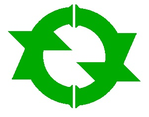 Otake Hiroshima chapter